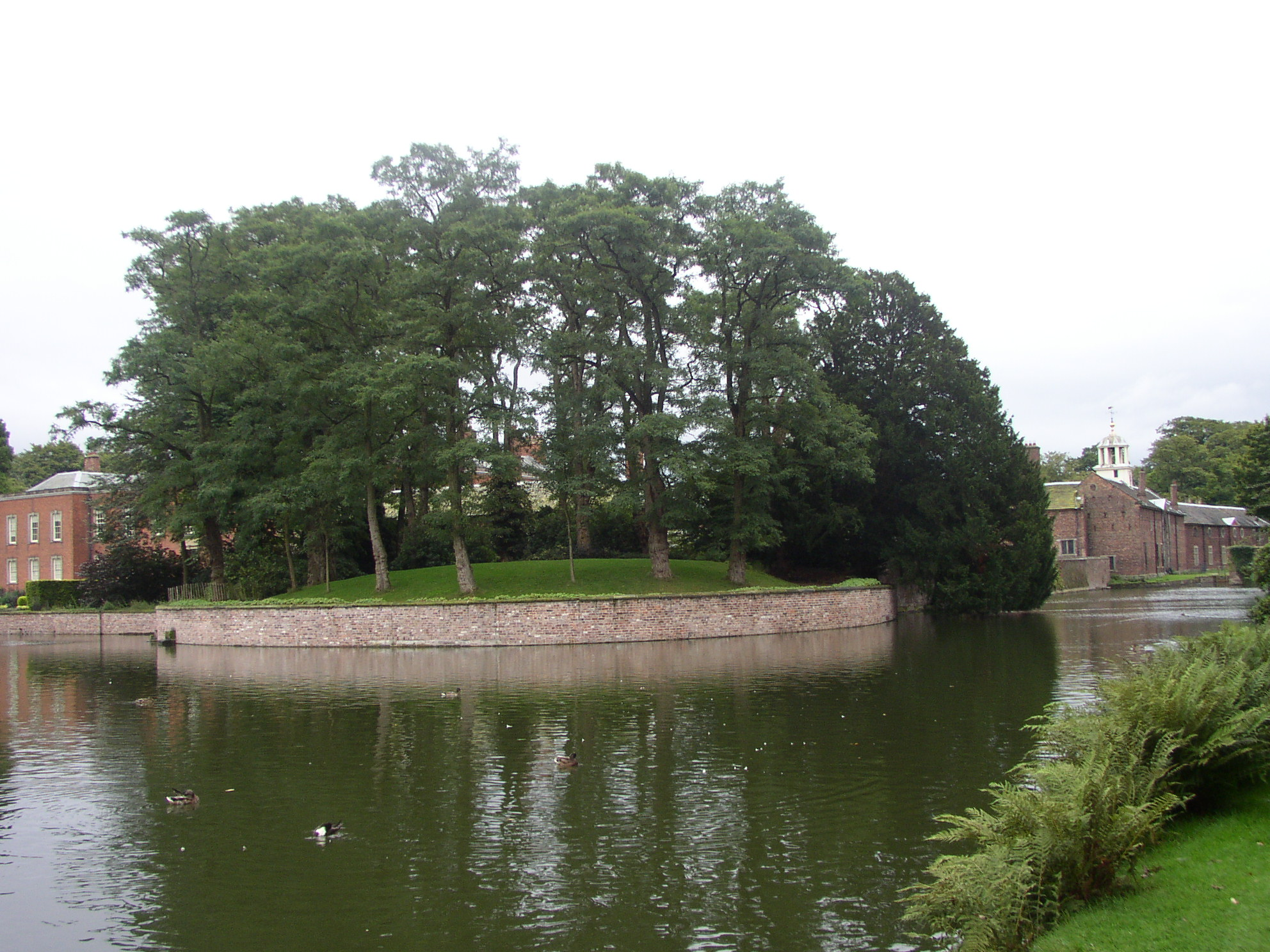 Dunham Massey Hall - the mound The mound is a possible site of Dunham Castle, which fell into ruin in the fourteenth century. According to the BBC Manchester website, "It has, in the past, been protected as a Scheduled Ancient Monument, but was descheduled when it was proposed that it may simply be a natural hummock of glacial sand".